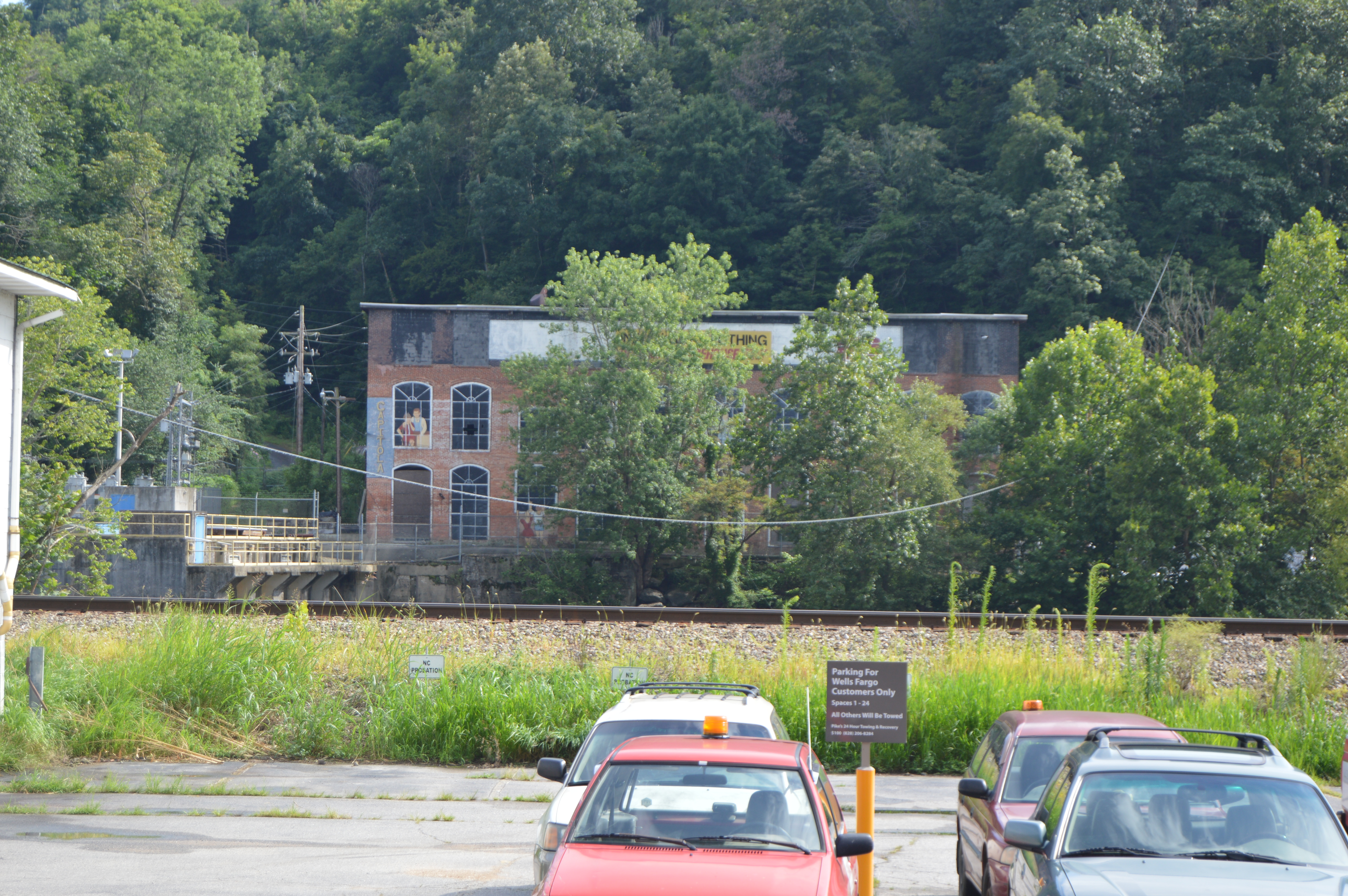 Northern side of the former Capitola Manufacturing Company Cotton Yarn Mill, located on the southern side of the French Broad River across from downtown Marshall, North Carolina, United States. Built in 1905, it is listed on the National Register of Historic Places.